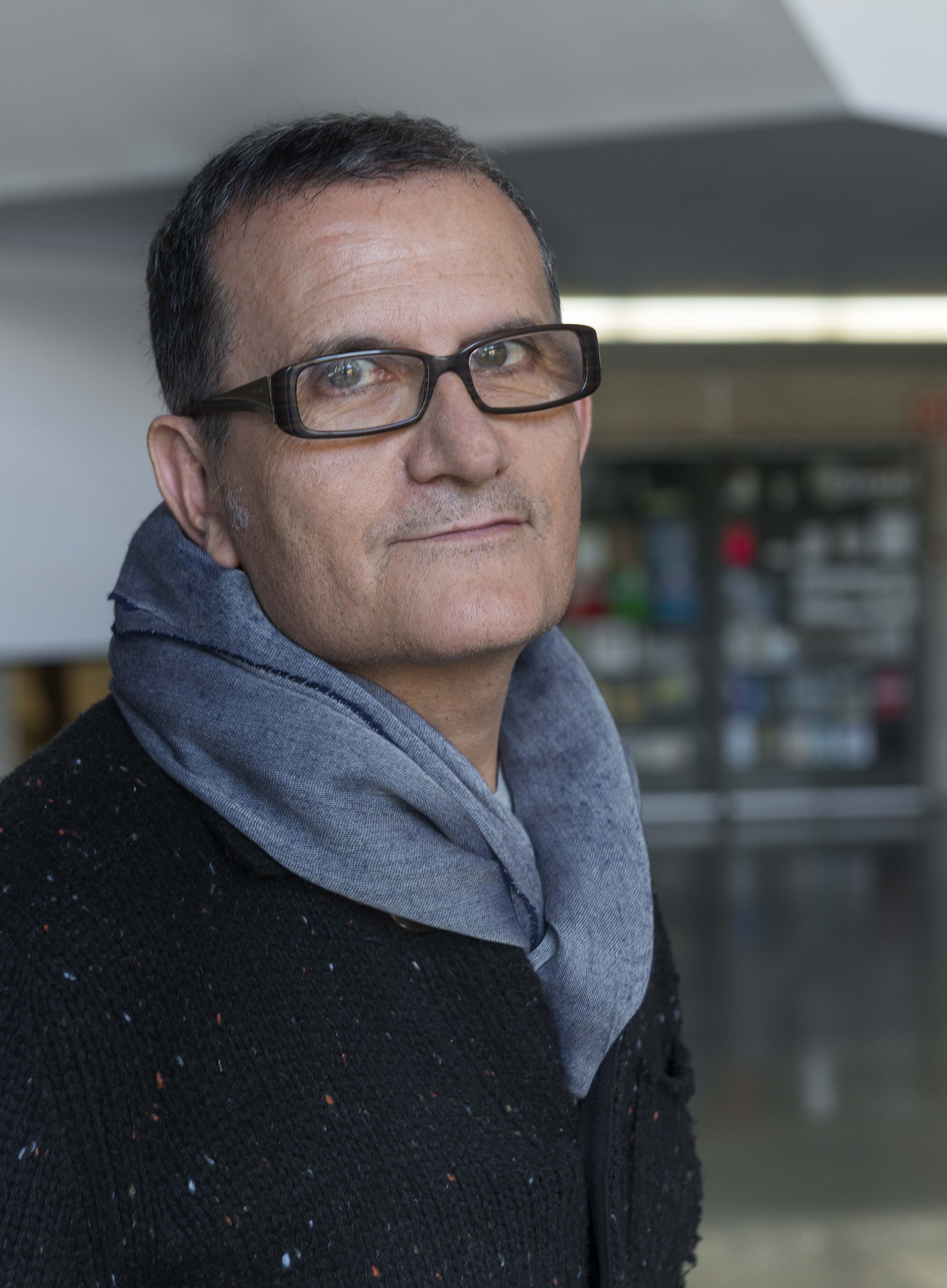 José Miguel G. Cortés